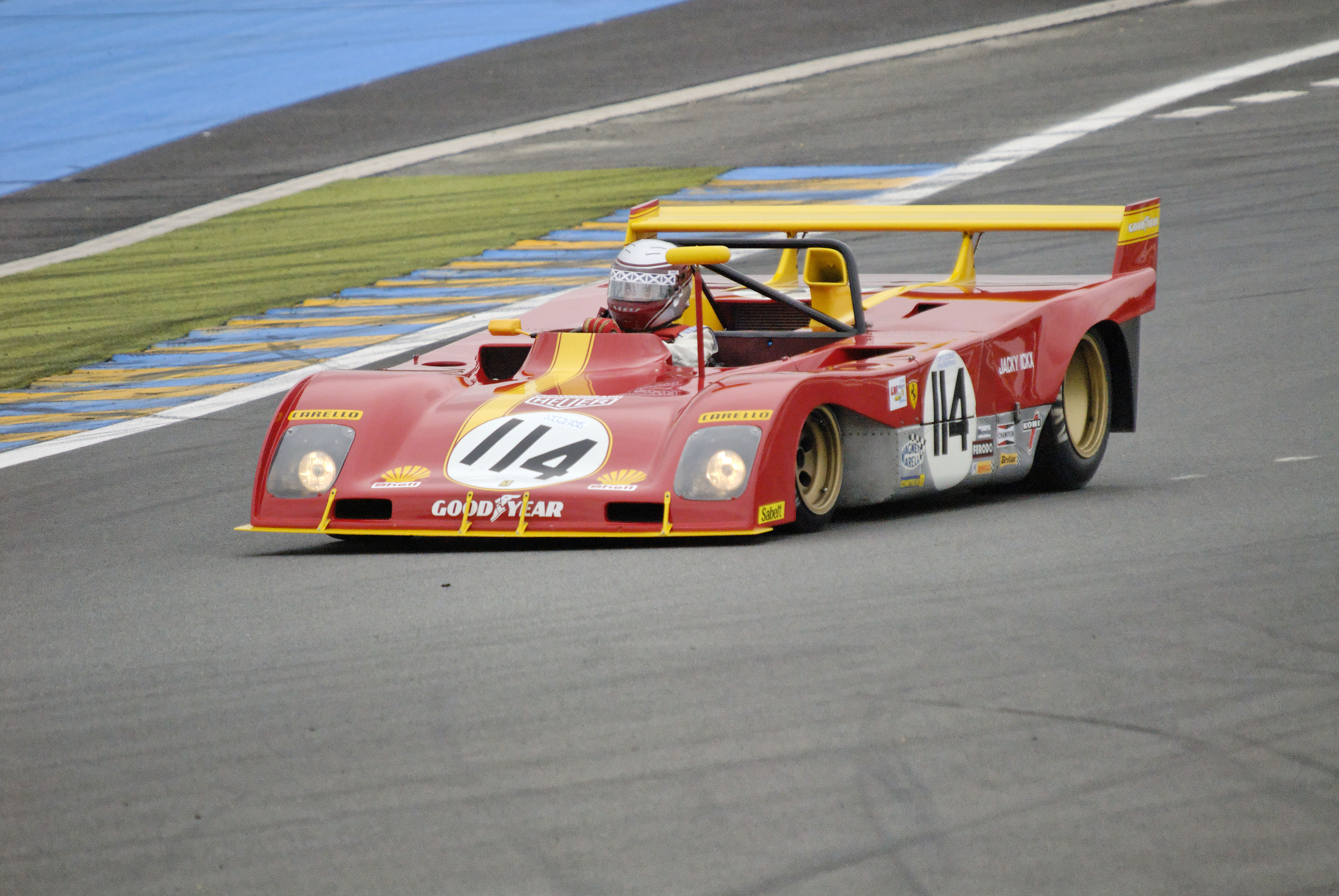 1972 Ferrari 312 PB s/n 0886 – at LM Story at Bugatti Circuit in Le Mans on 6 July 2007